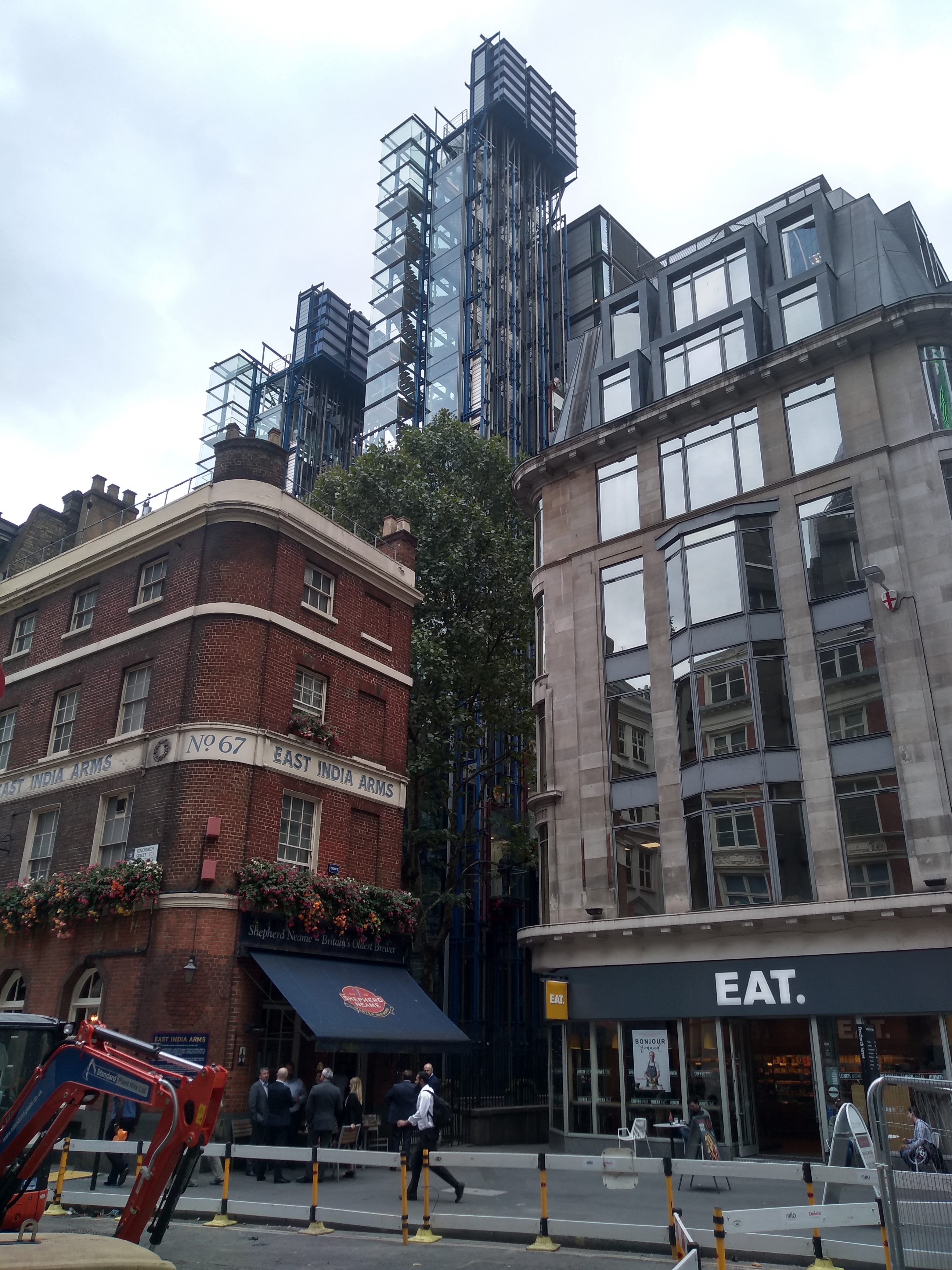 building at 71 Fenchurch Street